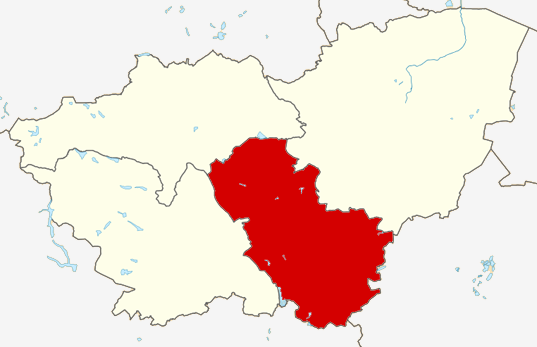 map showing Rotherham within South Yorkshire